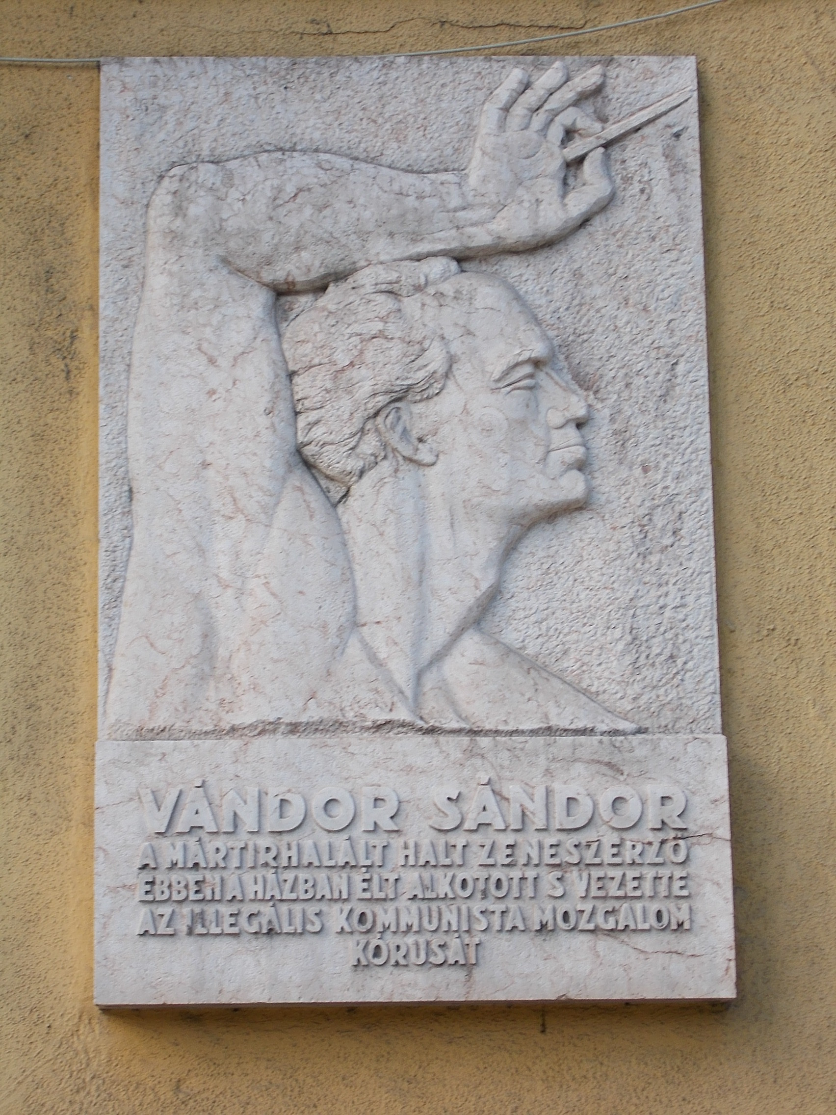 Here-worked plaque of Sándor Vándor (composer) at the wall of the former HQ of Hungarian National Federation of Construction Workers at 68 Dózsa György út, Budapest District VII., Hungary.